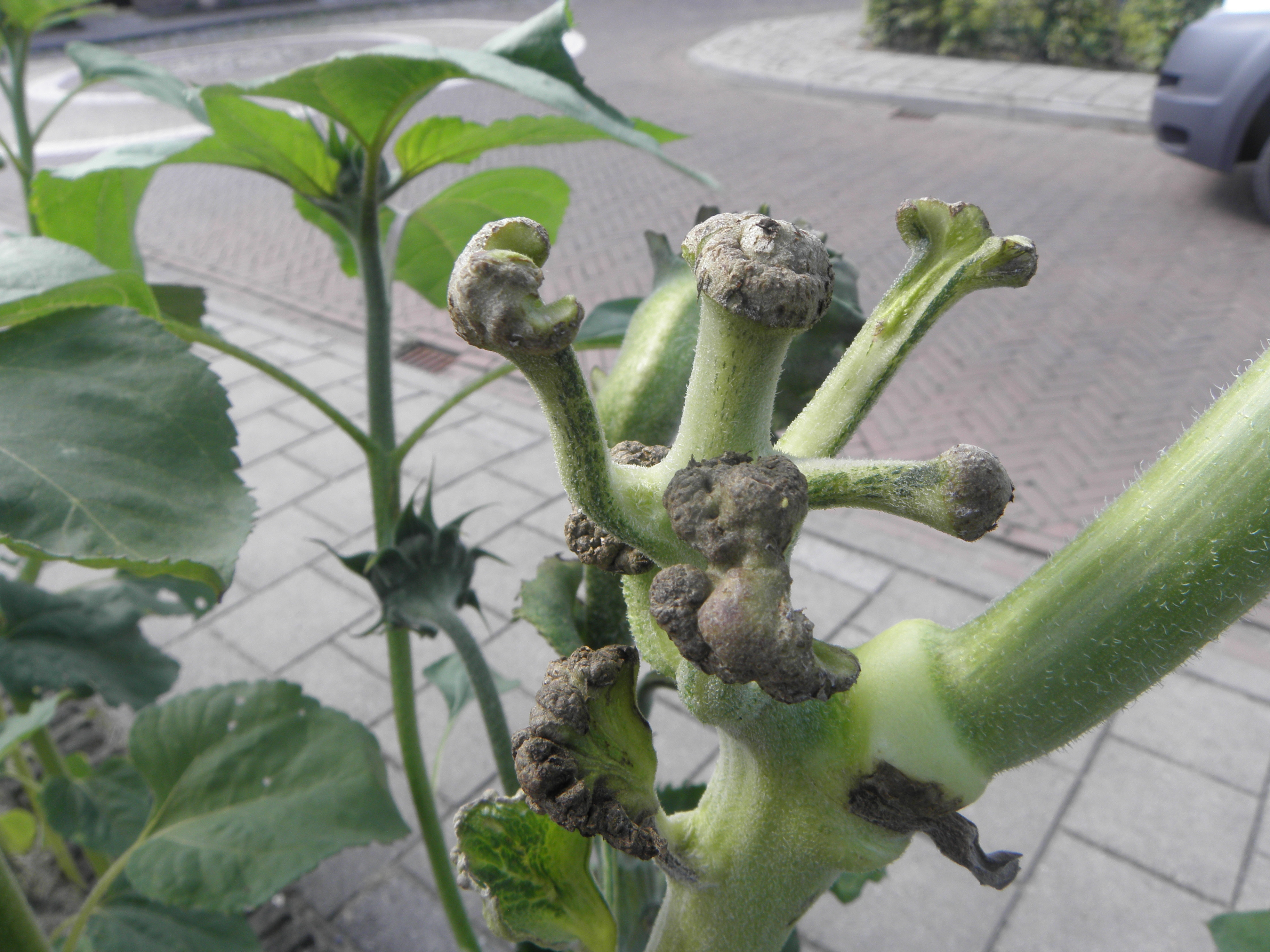 Valse meeldauw